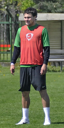 Anthony Elding, english football player.